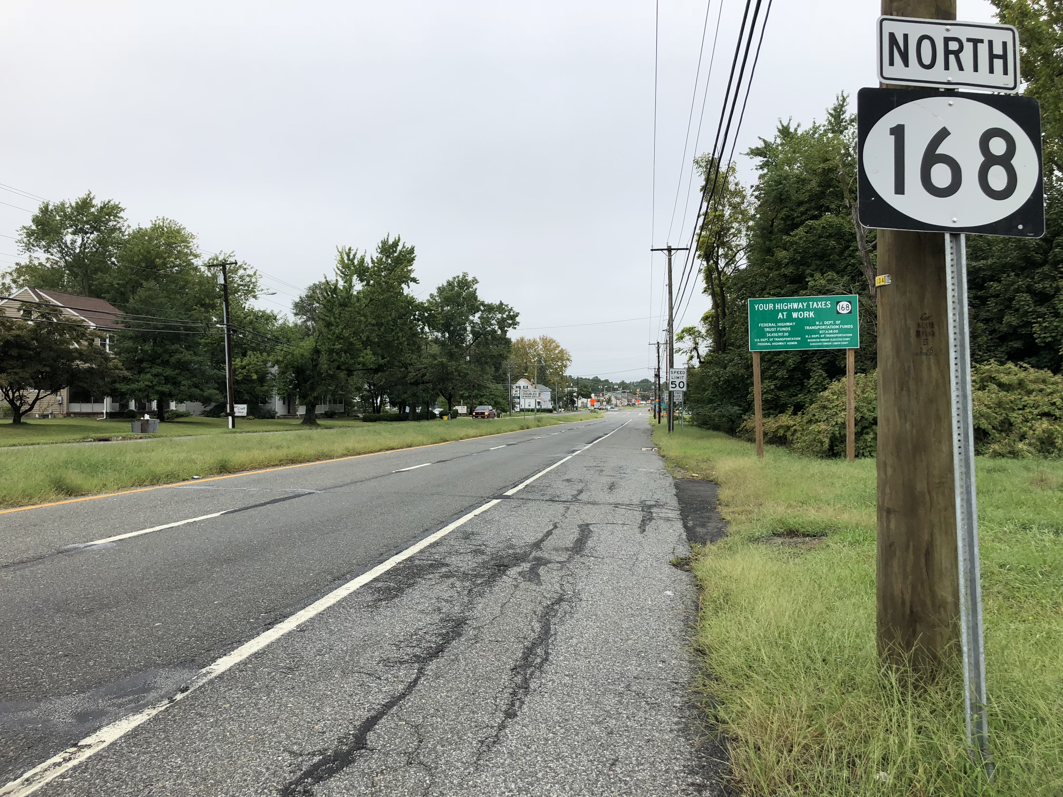 View north along New Jersey State Route 168 (Black Horse Pike) just north of New Jersey State Route 42 (North-South Freeway) in Washington Township, Gloucester County, New Jersey